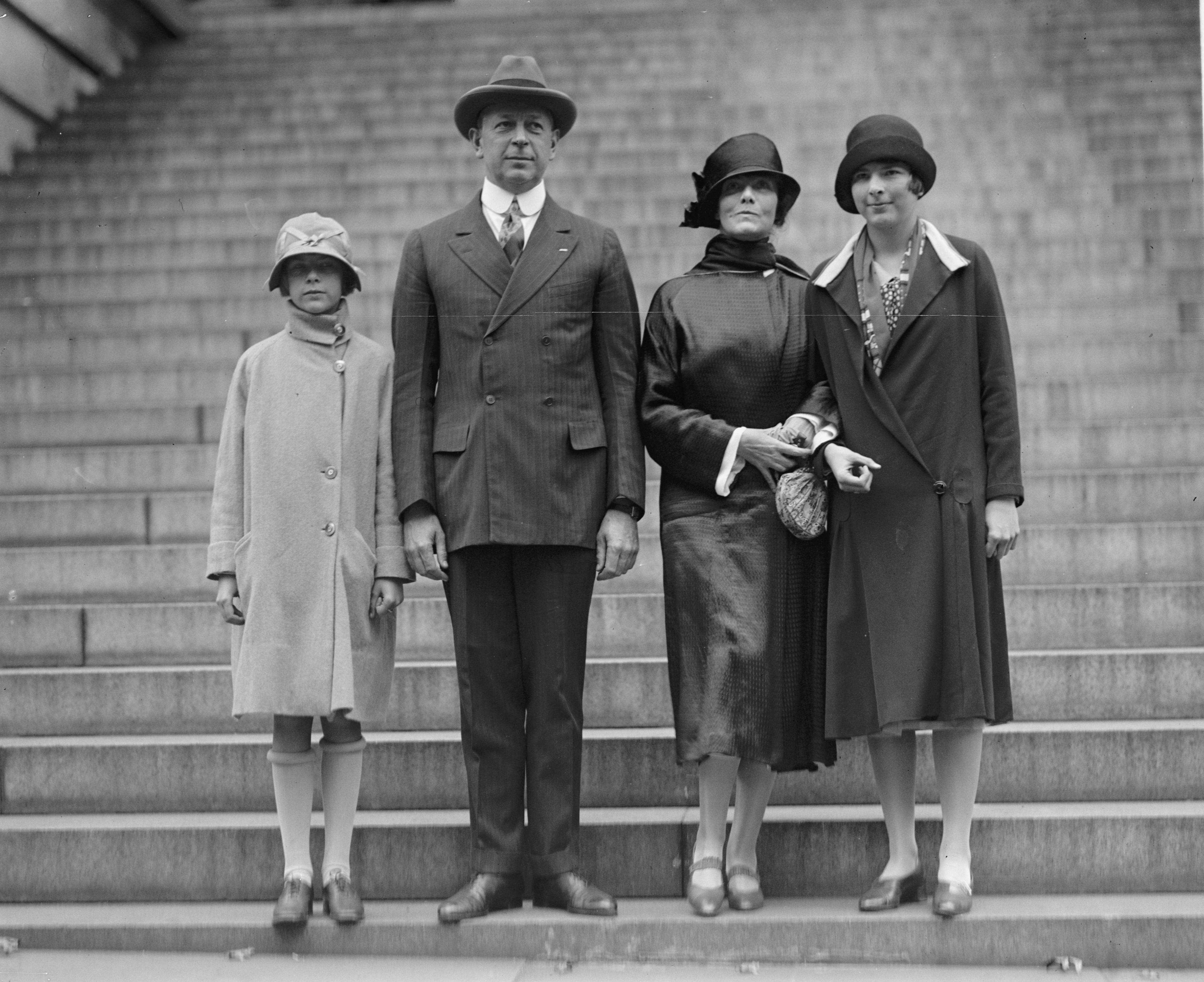 Dwight F. Davis (1879-1945), an American tennis player and politician